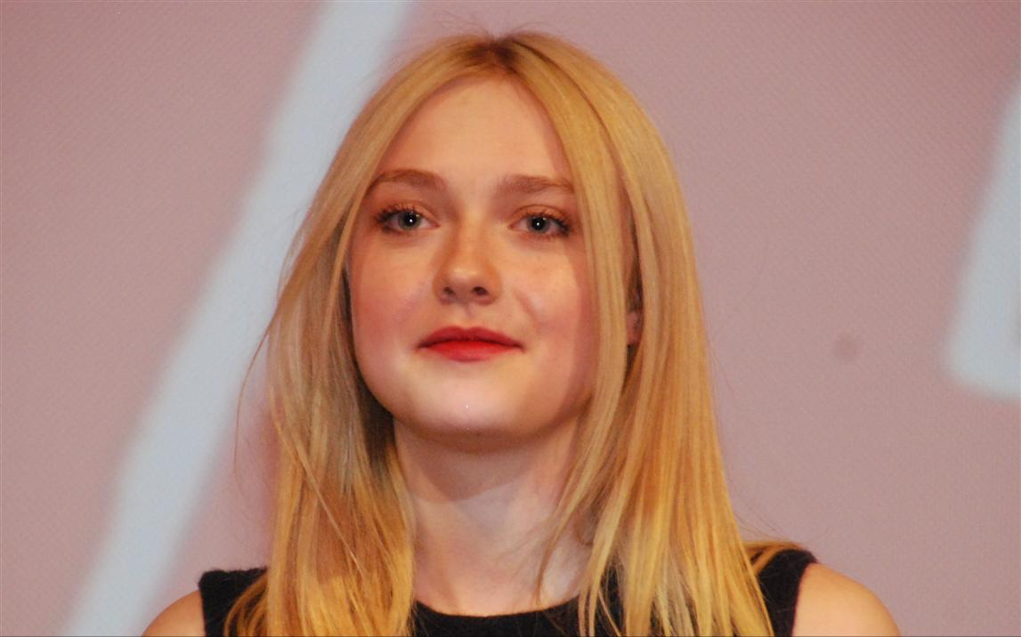 Actress Dakota Fanning at the world premiere of the film "Very Good Girls" on January 22, 2013Português do Brasil: A Atriz Dakota Fanning na Premiere Mundial de Very Good Girls.